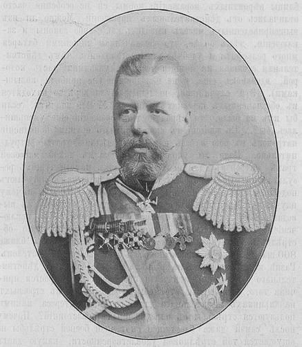 Russian General Sergei Konstantinovich Gershelman